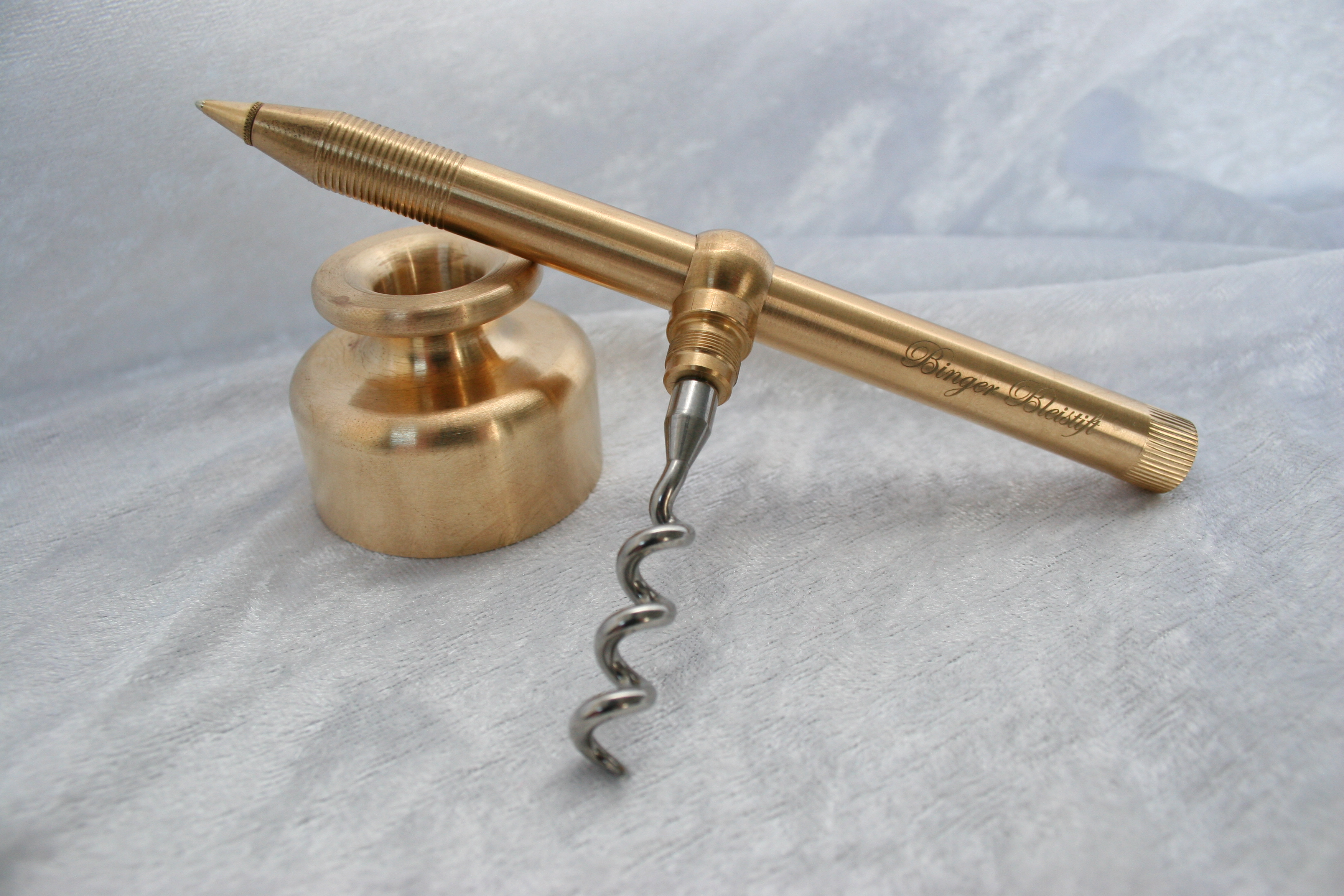 A corkscrew called "Binger Bleistift" following an old, local legend